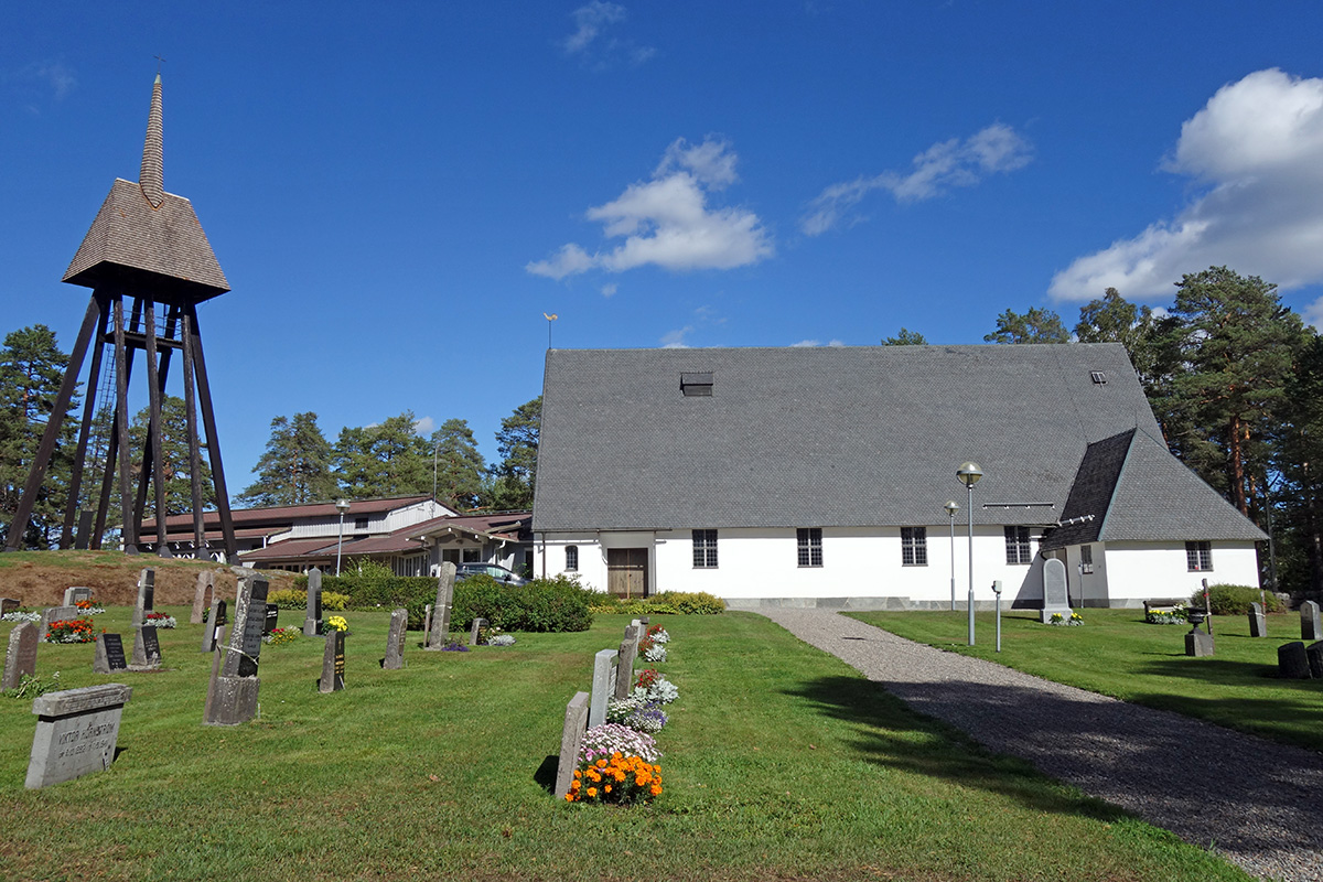 The church in Robertsfors, northern Sweden, from 1957